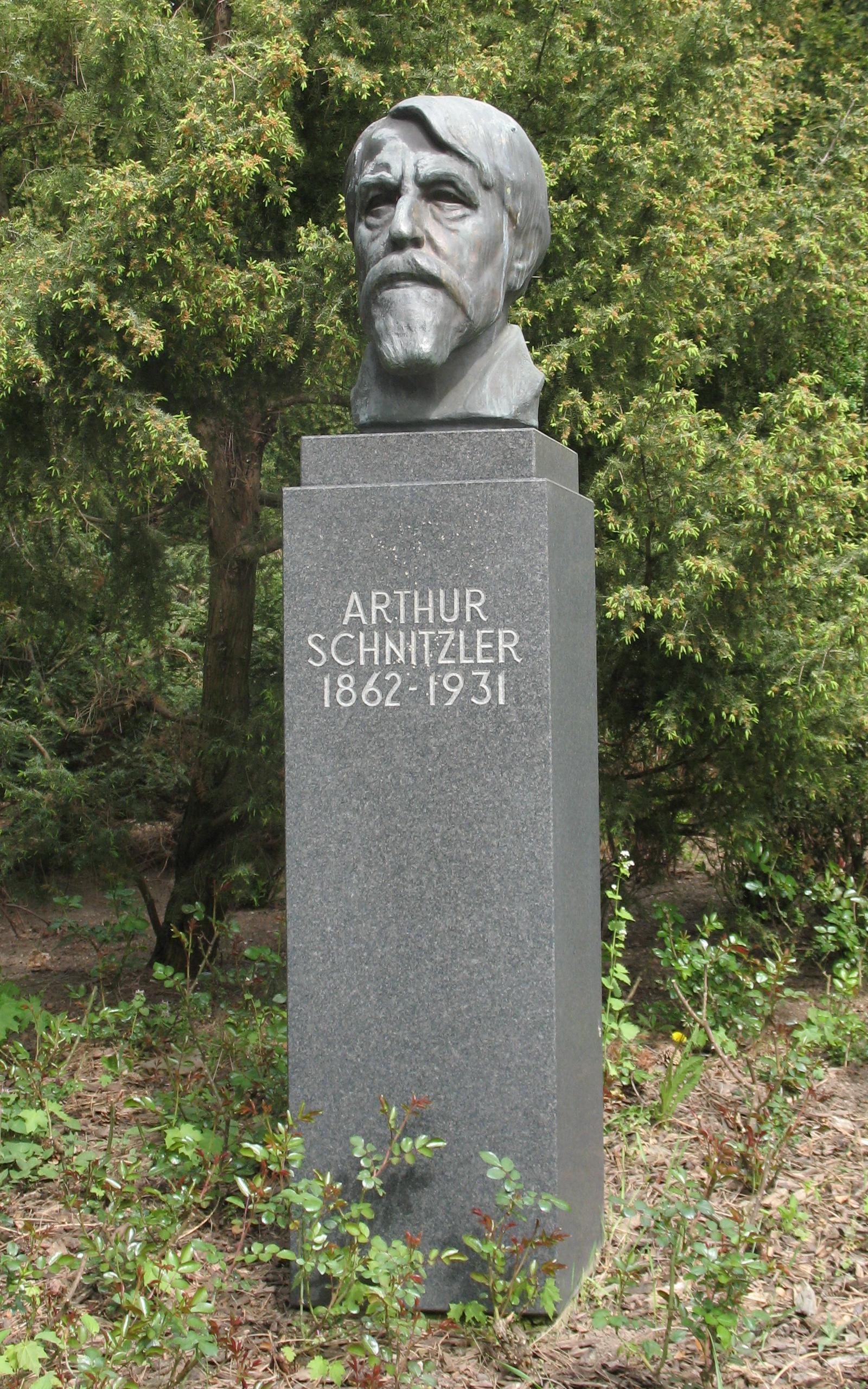 Memorial for Arthur Schnitzler in Vienna, Austria